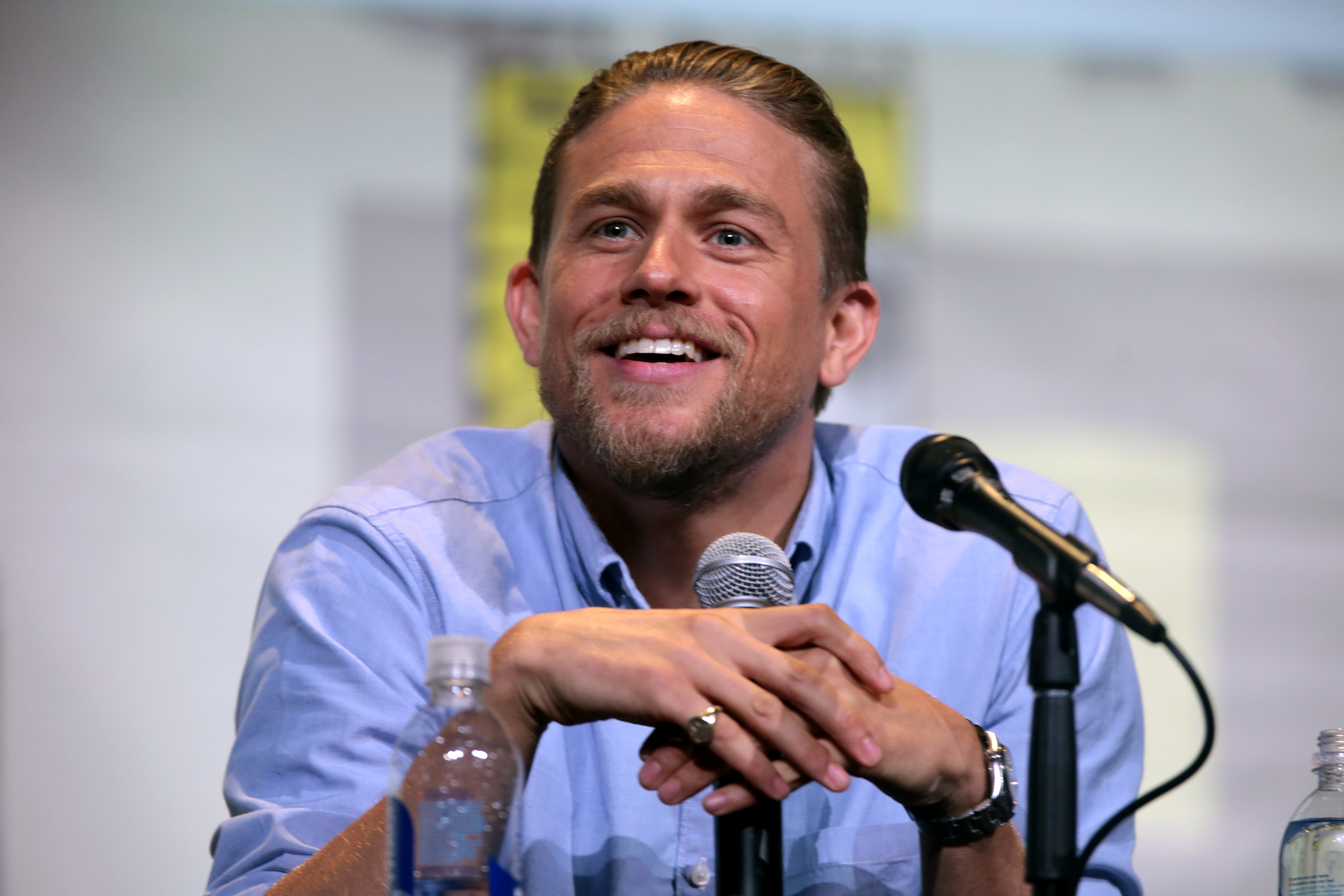 Charlie Hunnam speaking at the 2016 San Diego Comic Con International, for "King Arthur: Legend of the Sword", at the San Diego Convention Center in San Diego, California.